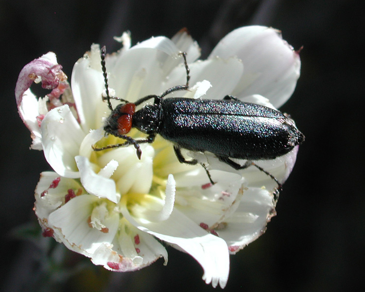 Lytta auriculata — near Robbin's Butte, Maricopa County, Arizona, USA. This adult is feeding on flowers of Rafinesquia neomexicana (desert chicory).